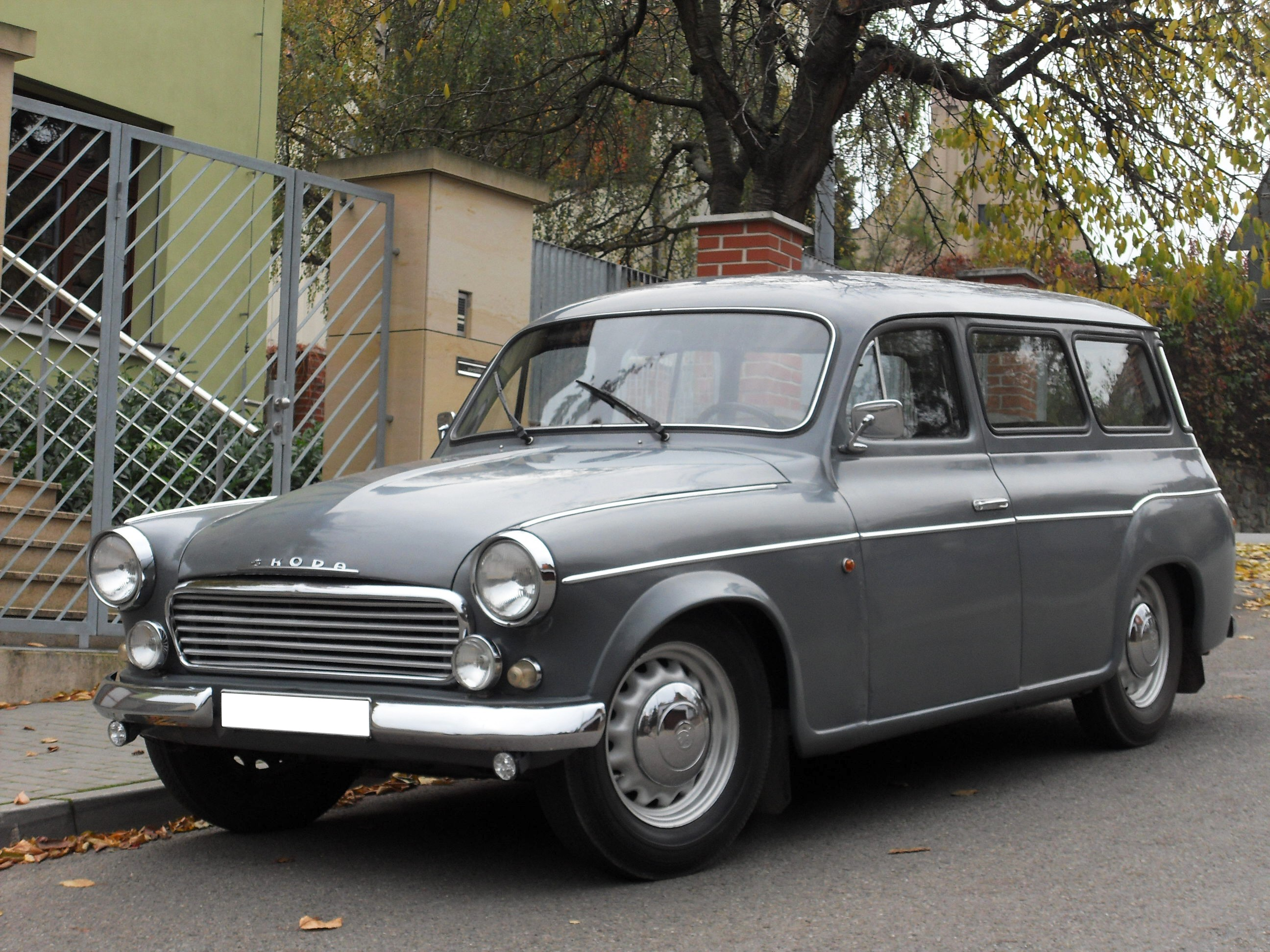 Škoda 1202 STW de Luxe, Brno, Czech Republic